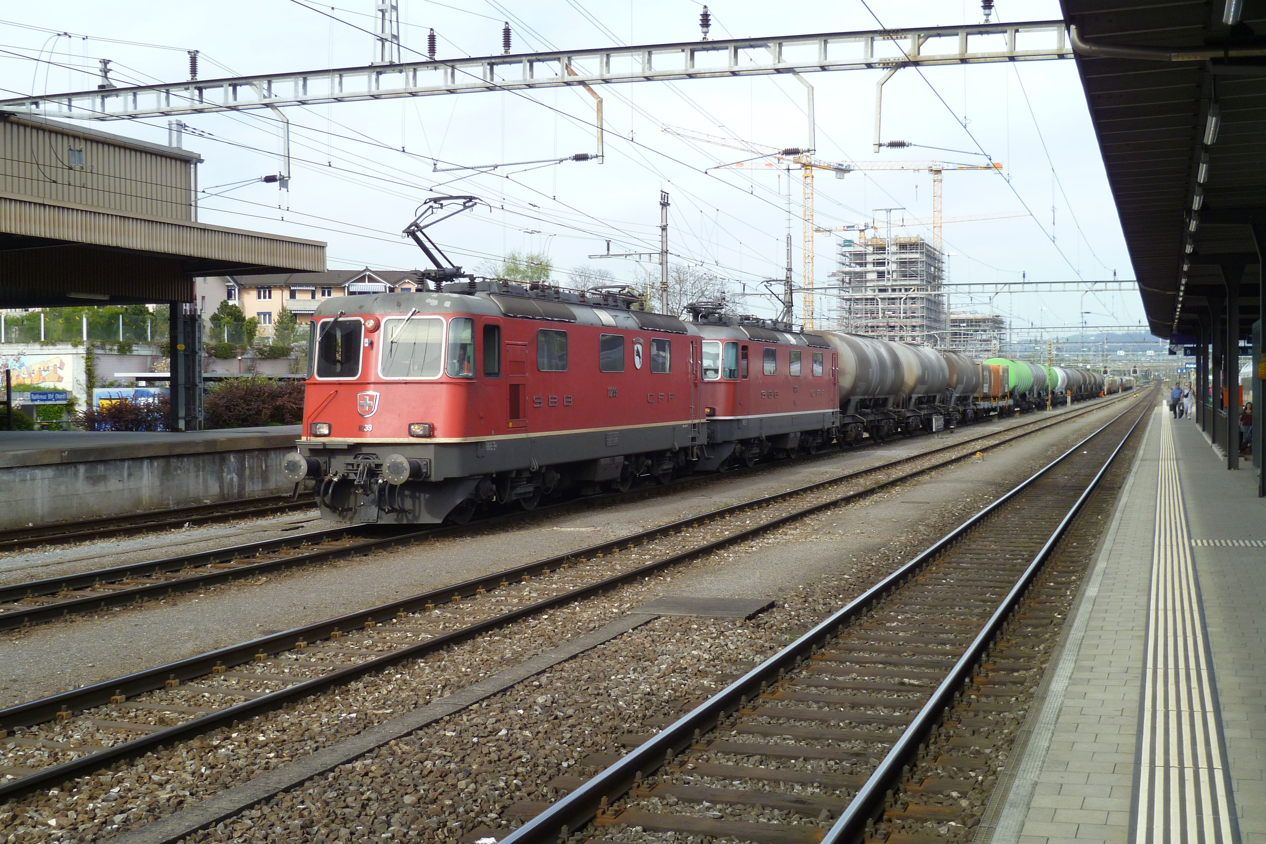 Rotkreuz train stationSBB Re 4/4 II 11239 and SBB Re 4/4 II 11171 with a mixed freight train collected at Rotkreuz freight yardSBB Re 4/4 II 11239 is the only Re 4/4 II carrying a Coat of arms.It is the one of Porrentruy, a municipality of the Canton of Jura, which was created in 1979 as 26th canton of Switzerland.Therefore, following the tradition babtising an SBB Ae 6/6 the SBB-CFF-FFS Ae 6/6 11483 Porrentruy was chosen to carry the Coat of arms of the République et Canton du Jura and the coat of arms of Porrentruy went to the Re 4/4 II 11239.